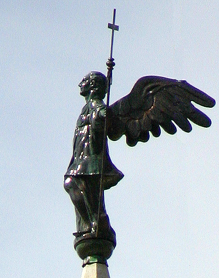 Detail of the Girona's Cathedral. Girona, Catalonia (Spain)